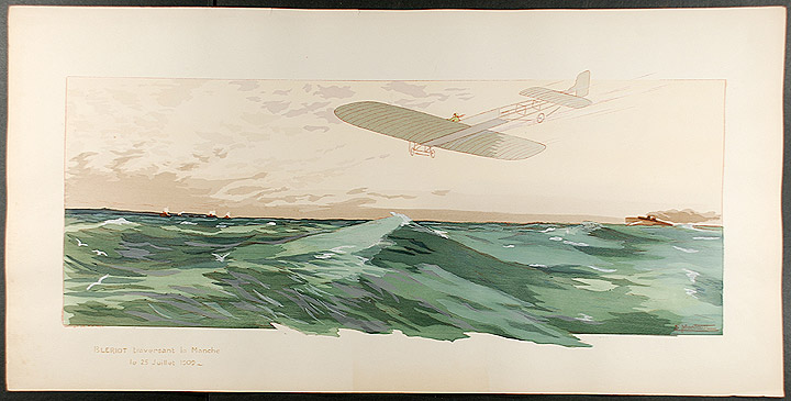 "Bleriot traversant la Manche le 25 Juillet 1909" Paris: M.M., 1909. Hand-coloured pochoir print. Image size (including text): 14 1/8 x 30 1/4 inches. Louis Bleriot flies over the English Channel and wins the £1000 Daily Mail prize. The Bleriot type XI "Onze" was the most famous and successful of the Bleriot line. This actual aircraft is preserved in the Paris Conservatorie des Arts et Metiers. In 1911, the type XI became the first airplane used in a war.